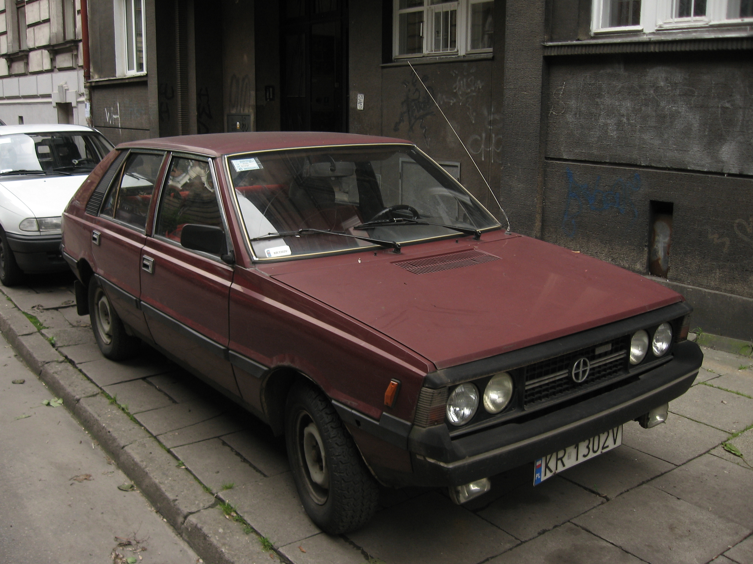 FSO Polonez MR'78 1500 car in Kraków, Poland.